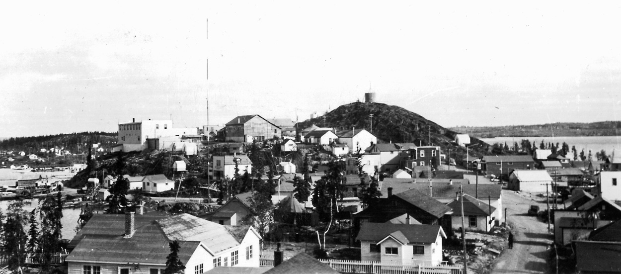 A view of Yellowknife, looking down into Old Town